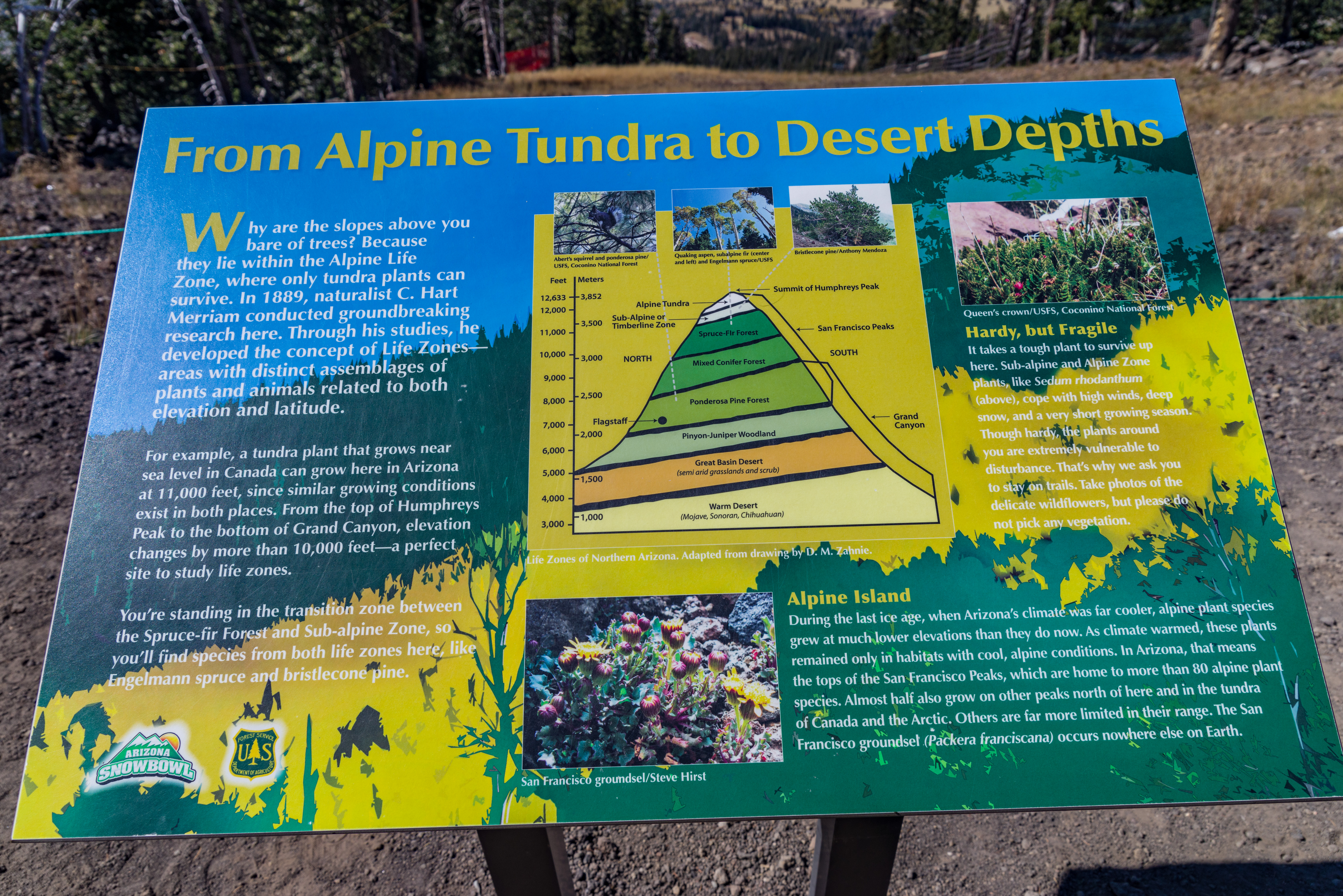 A sign explaining the different landscape and ecology of Northern Arizona to the deserts nearby